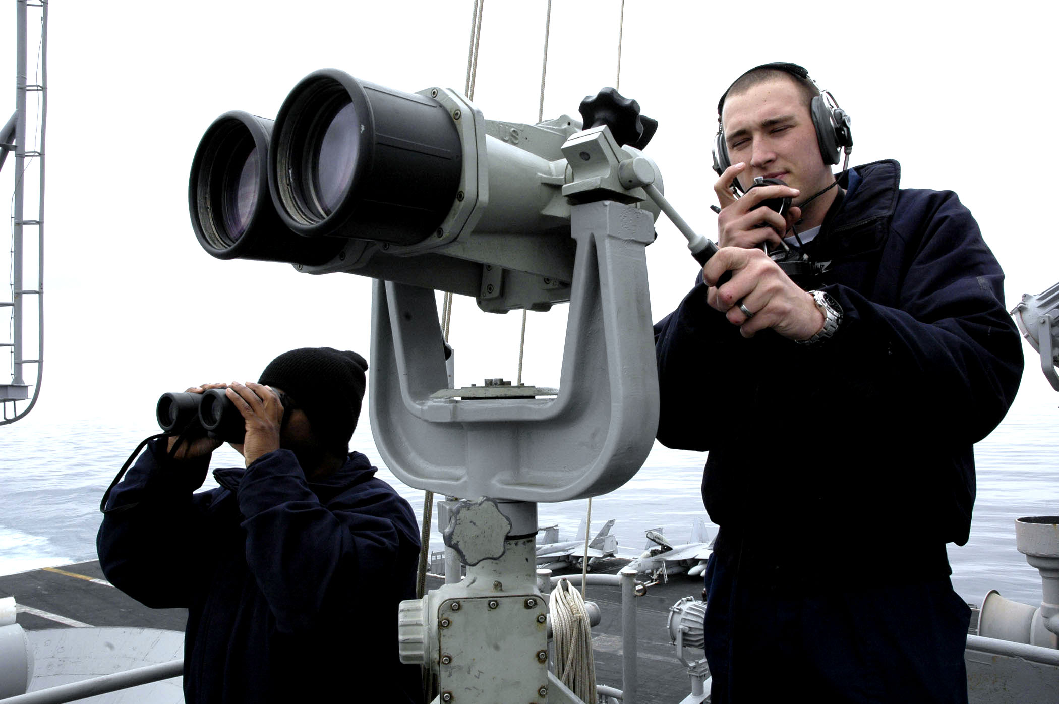 PACIFIC OCEAN (June 11, 2008) Boatswain's Mate 3rd Class Michael Owens, right, and Seaman William Buck stand starboard aft lookout watch on the island aboard the Nimitz-class aircraft carrier USS John C. Stennis (CVN 74). John C. Stennis and Carrier Air Wing (CVW) 9 are conducting tailored ship's training availability off the coast of Southern California. U.S. Navy photo by Mass Communication Specialist 2nd Class Robert C. Long (Released)